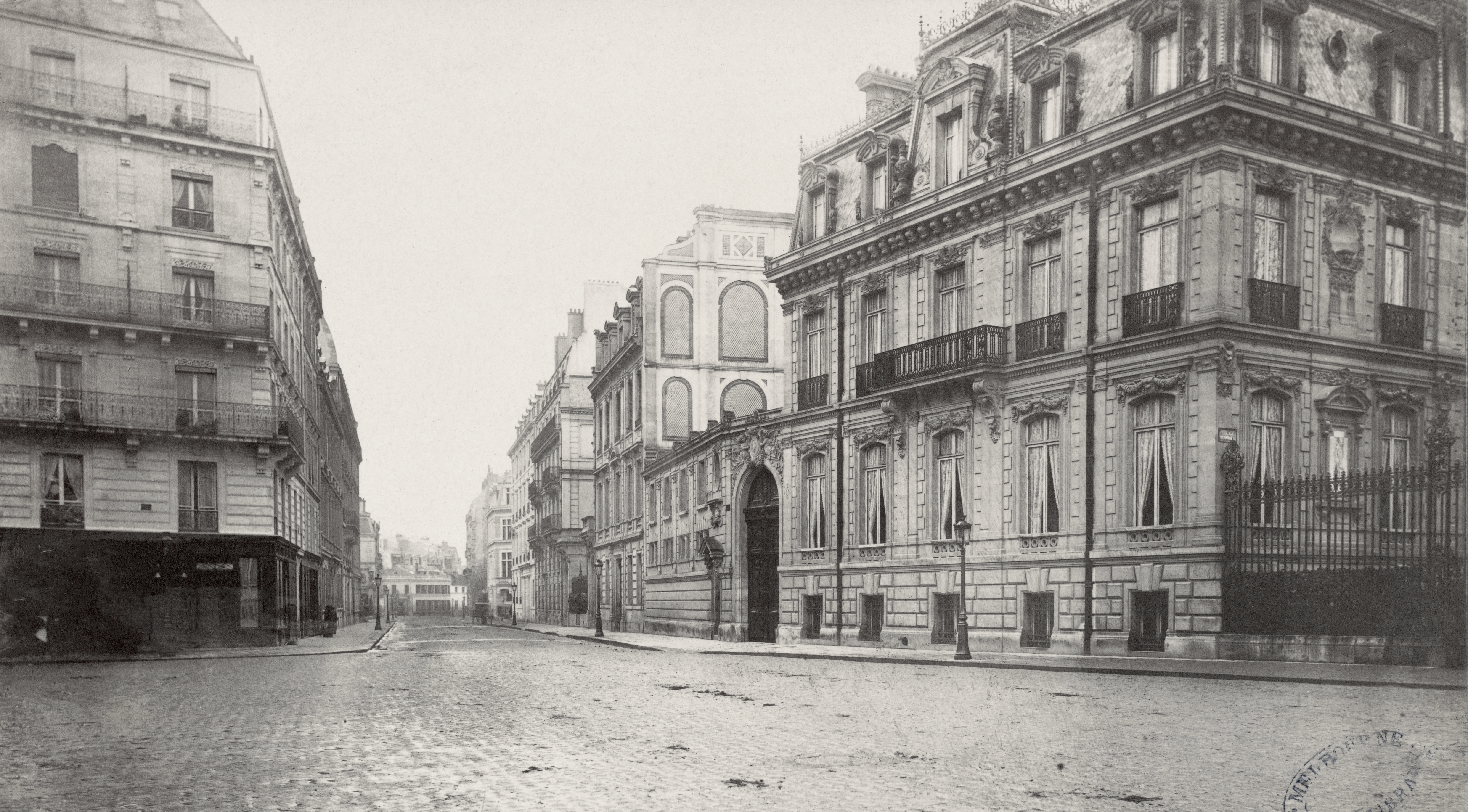 Looking along cobbled street with grill fence adjoining three storey building on right, arched entrance off path (now the Algerian embassy?).